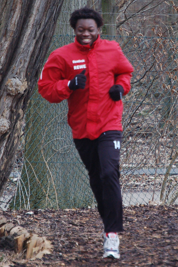 Burkinabe footballer Wilfried Sanou.